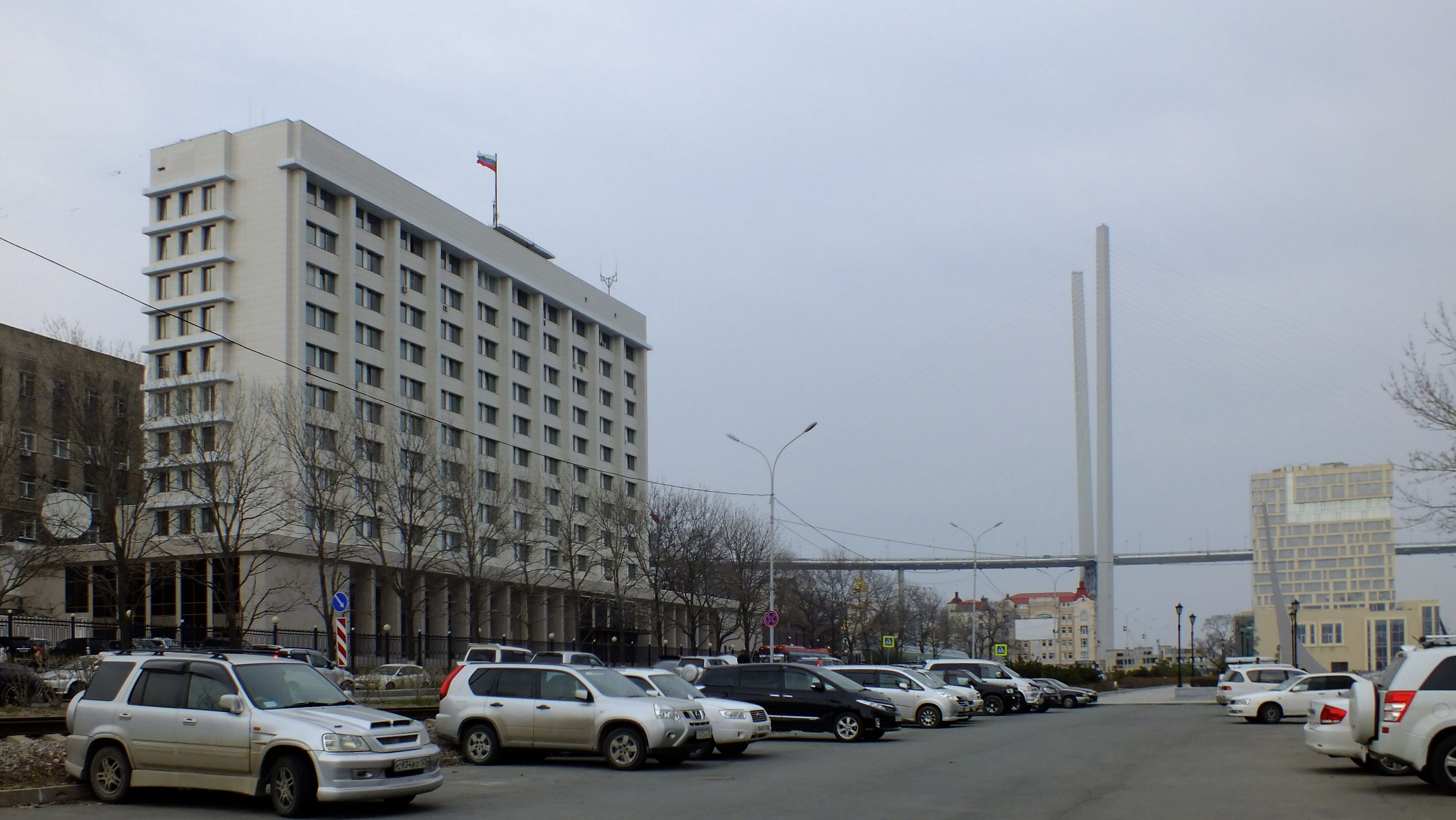 Pacific fleet of Russia